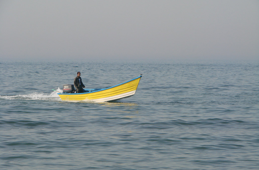 Caspian Sea, iran